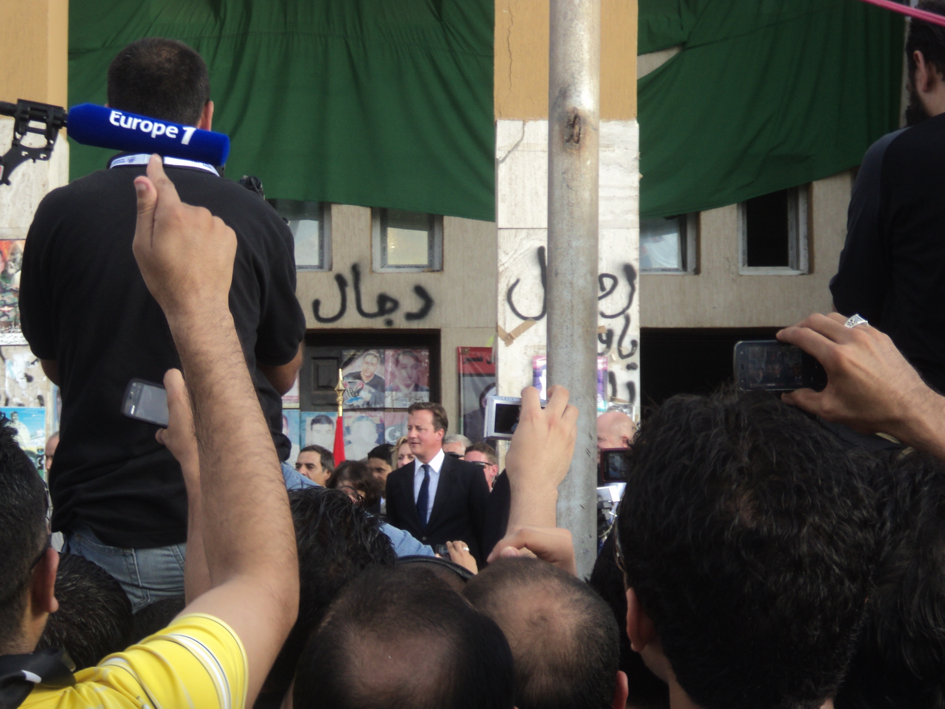 British PM David Cameron in his visit on Sep. 15, 2011.